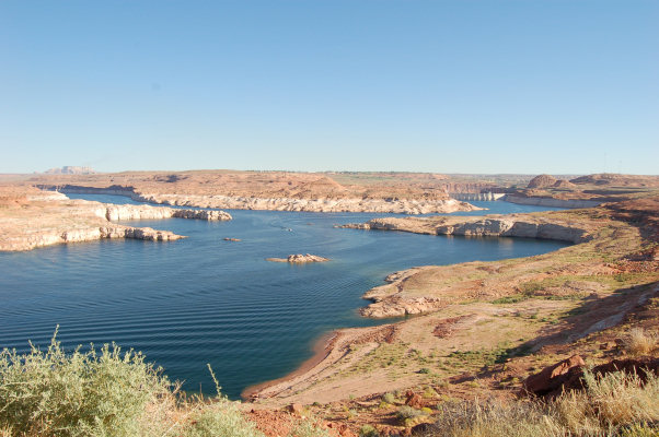 The southwestern part of Lake Powell lies in Arizona. To the right is the back of the Glen Canyon Dam, which created this reservoir.